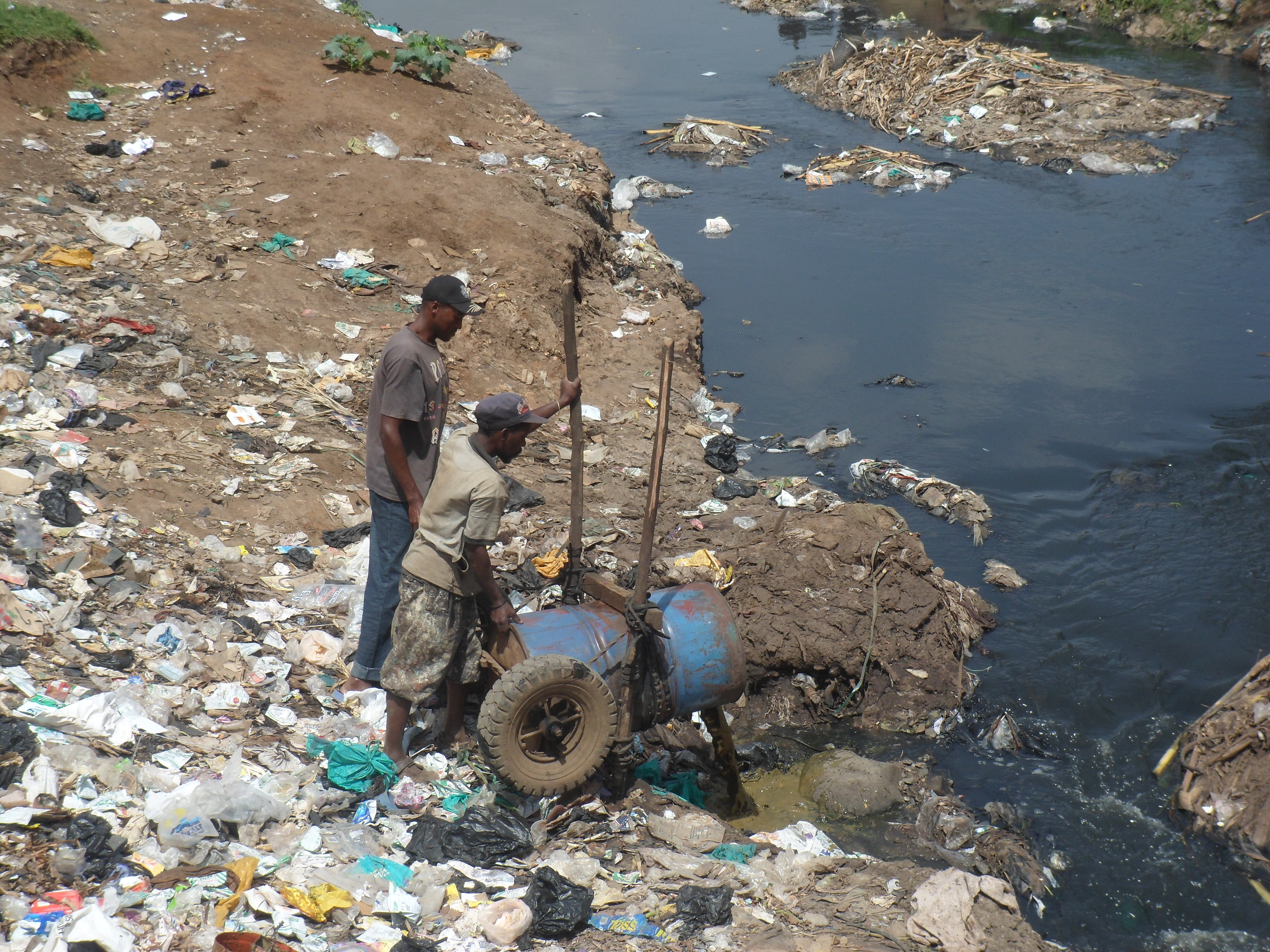 Faecal sludge that has been manually removed from pits is dumped into the local river at the Korogocho slum in Nairobi, Kenya.